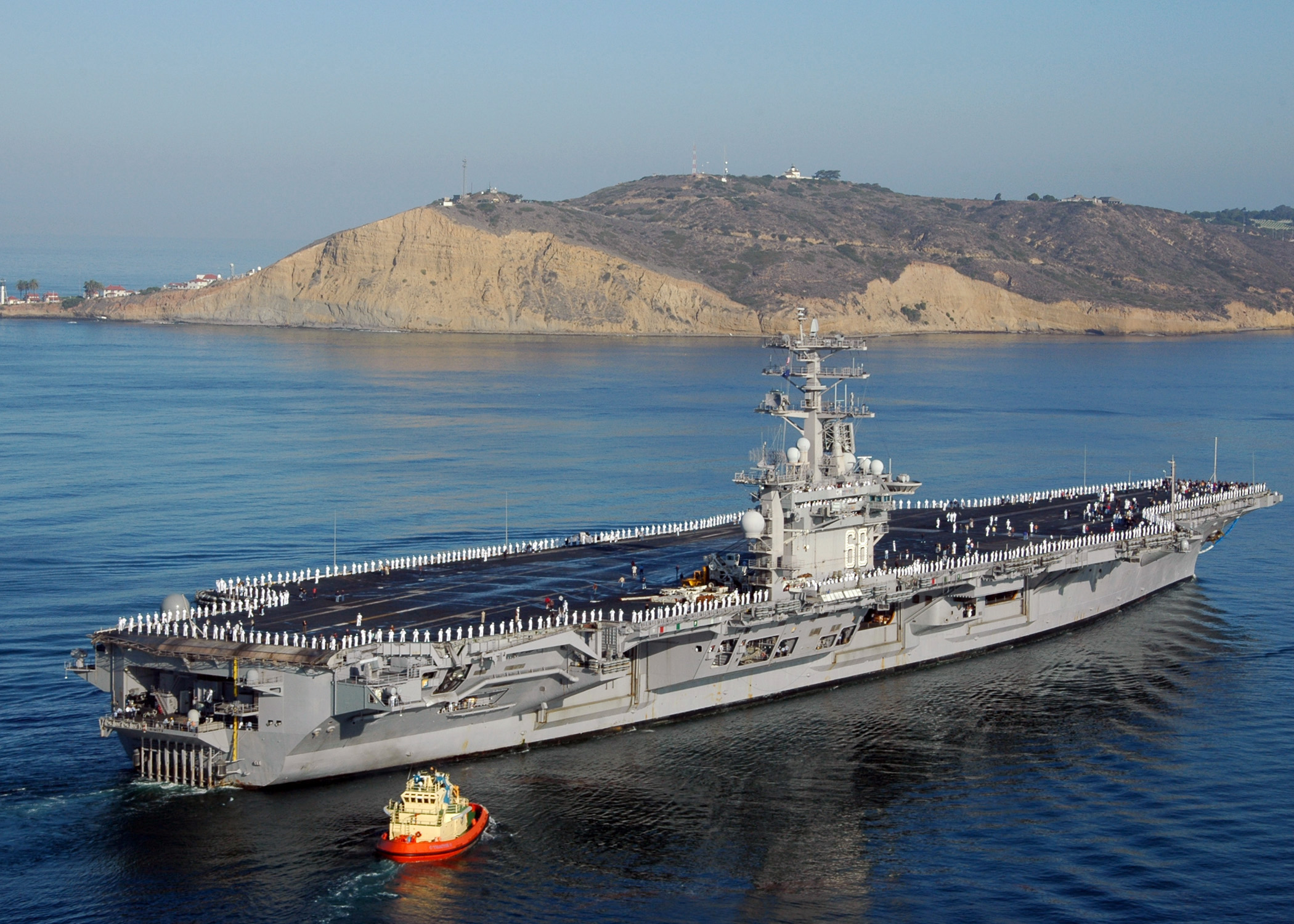 USS Nimitz returning to NB San Diego homeport, on 30 september 2007.